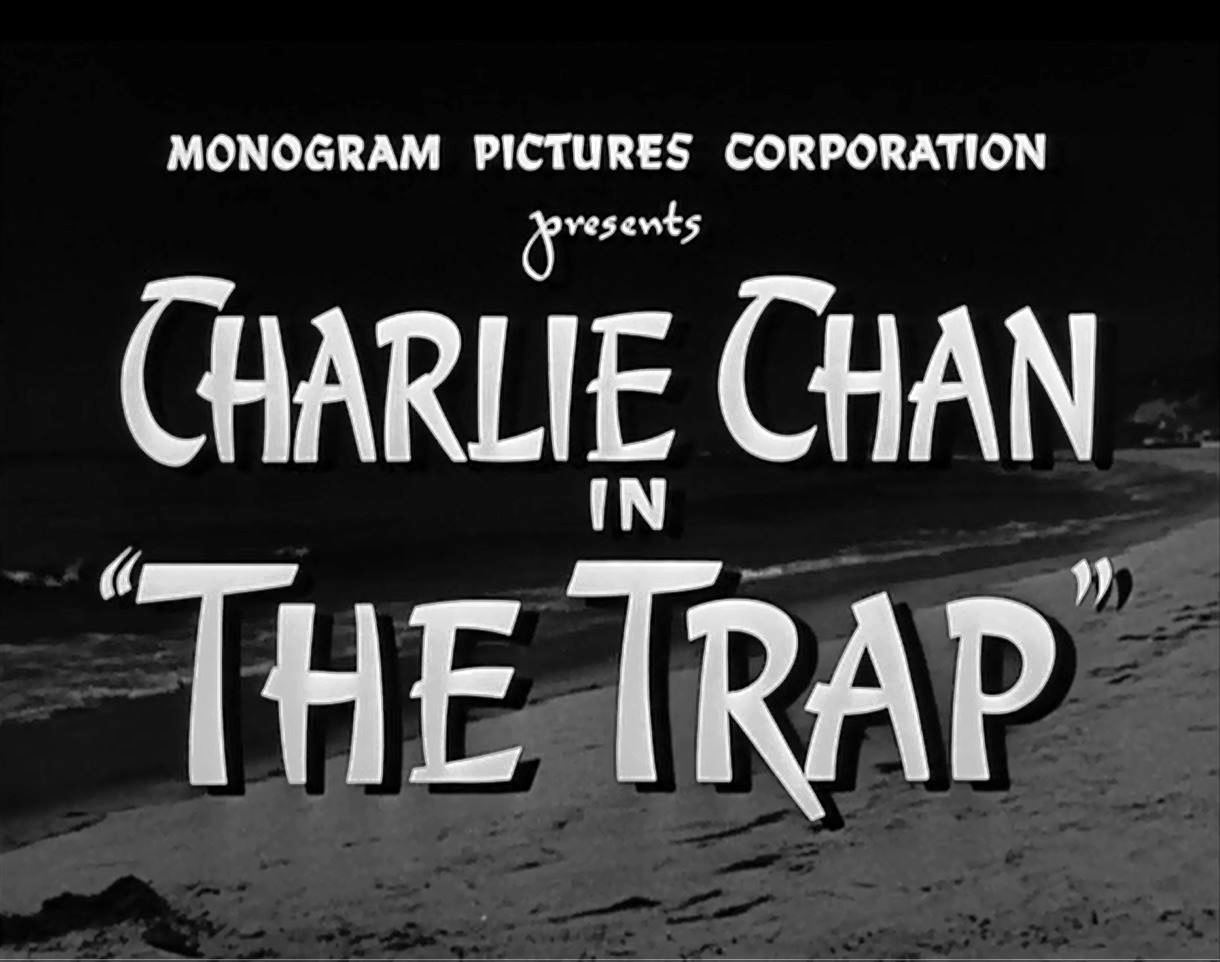 Title for the 1946 American film The Trap (1946), which was the last Charlie Chan film starring Sidney Toler, who died shortly after its release. The film is in the public domain due to the omission of a valid copyright notice on its original prints.